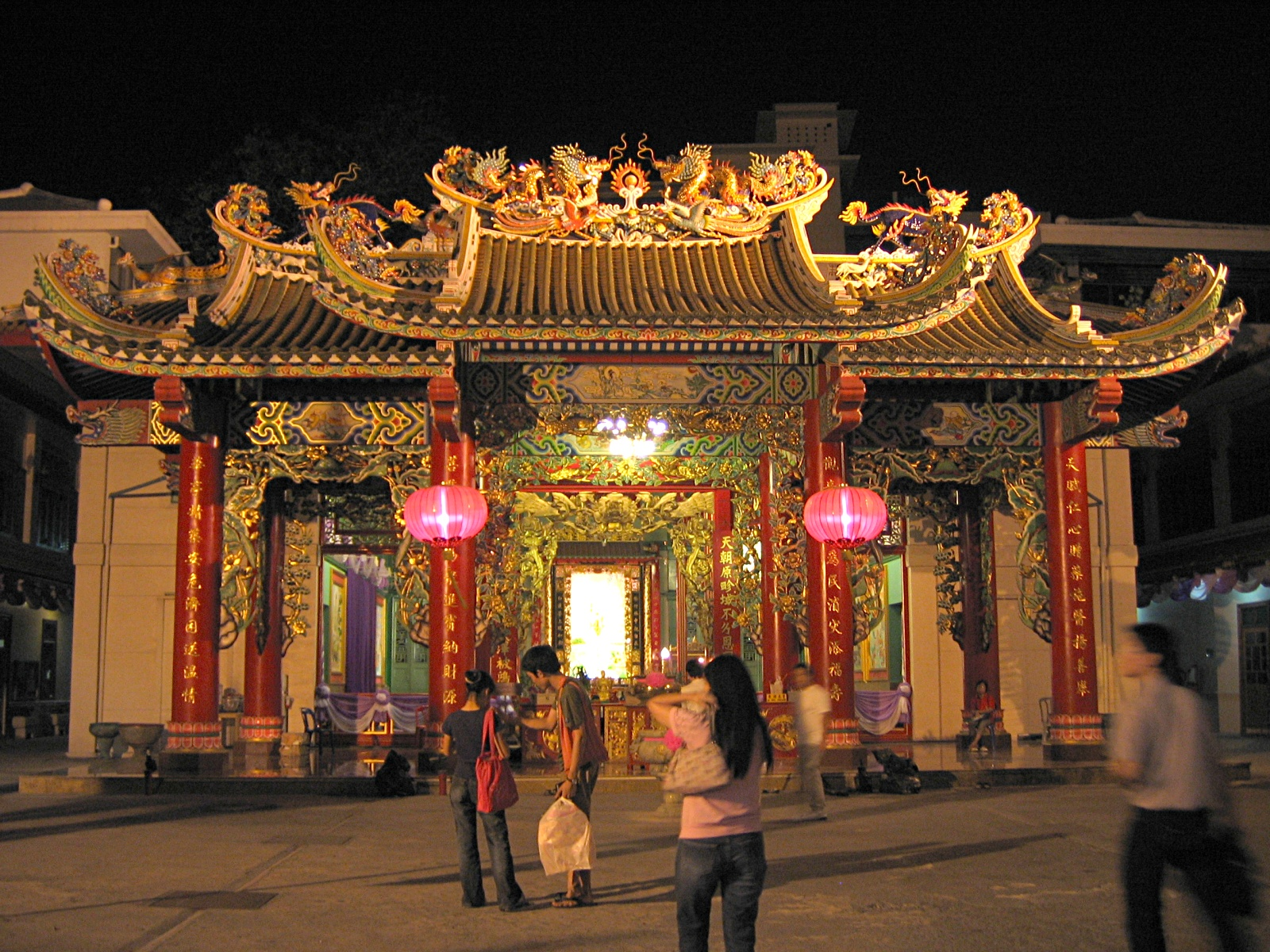 The shrine at Thien Fah Foundation during Chinese New Year. Samphanthawong District, Bangkok, Thailand.